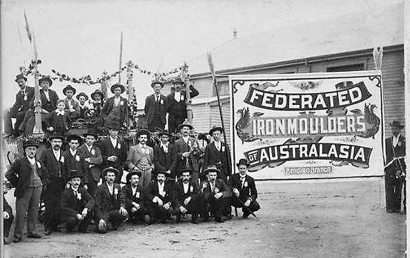 The image is a photograph of a group of members of the Bendigo Branch of Federated Ironmoulders' Union of Australasia, a defunct trade union.